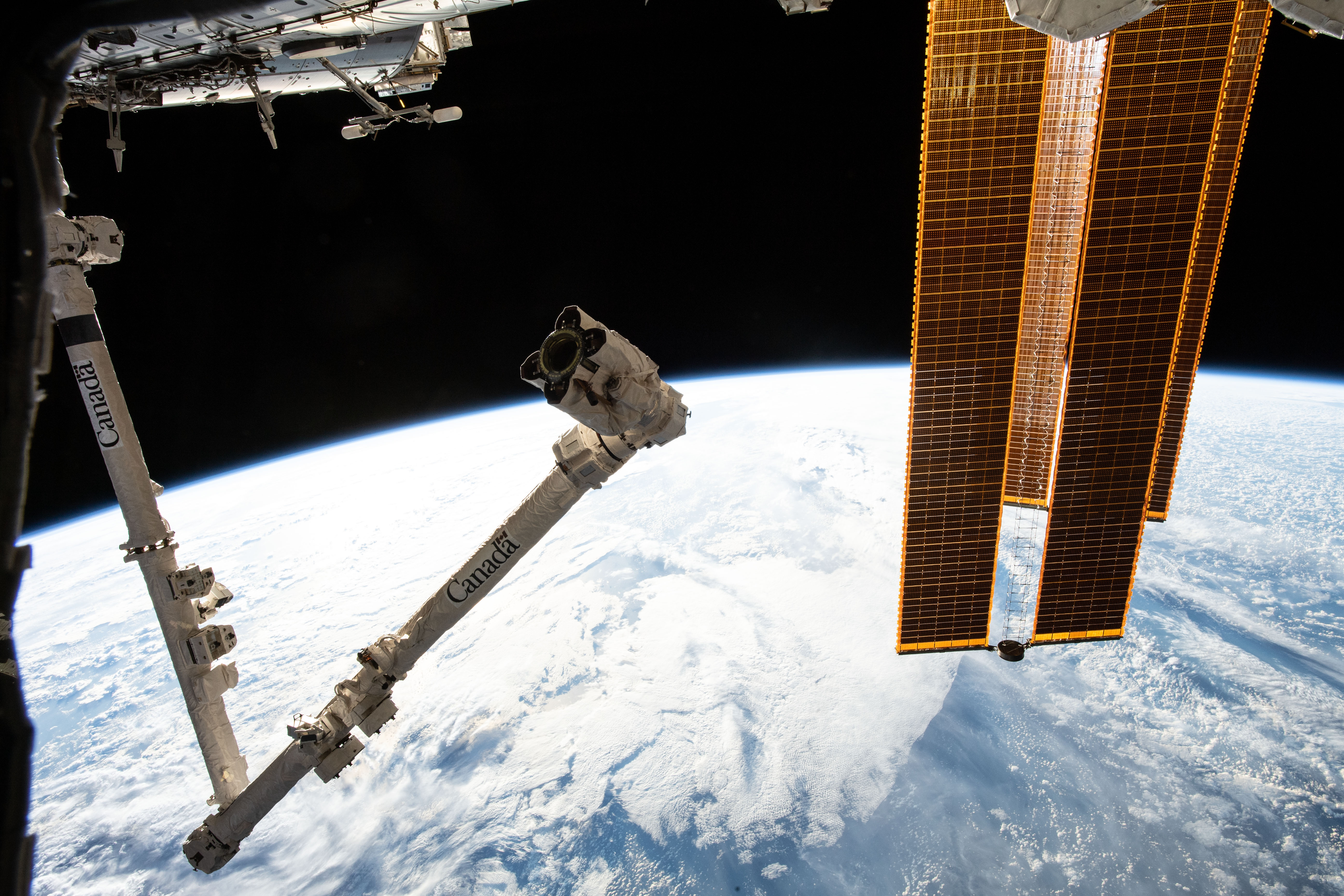 The International Space Station's Canadarm2 robotic arm and solar array's highlight the foreground as the orbital complex flew 260 miles above the South Pacific Ocean northwest of New Zealand.